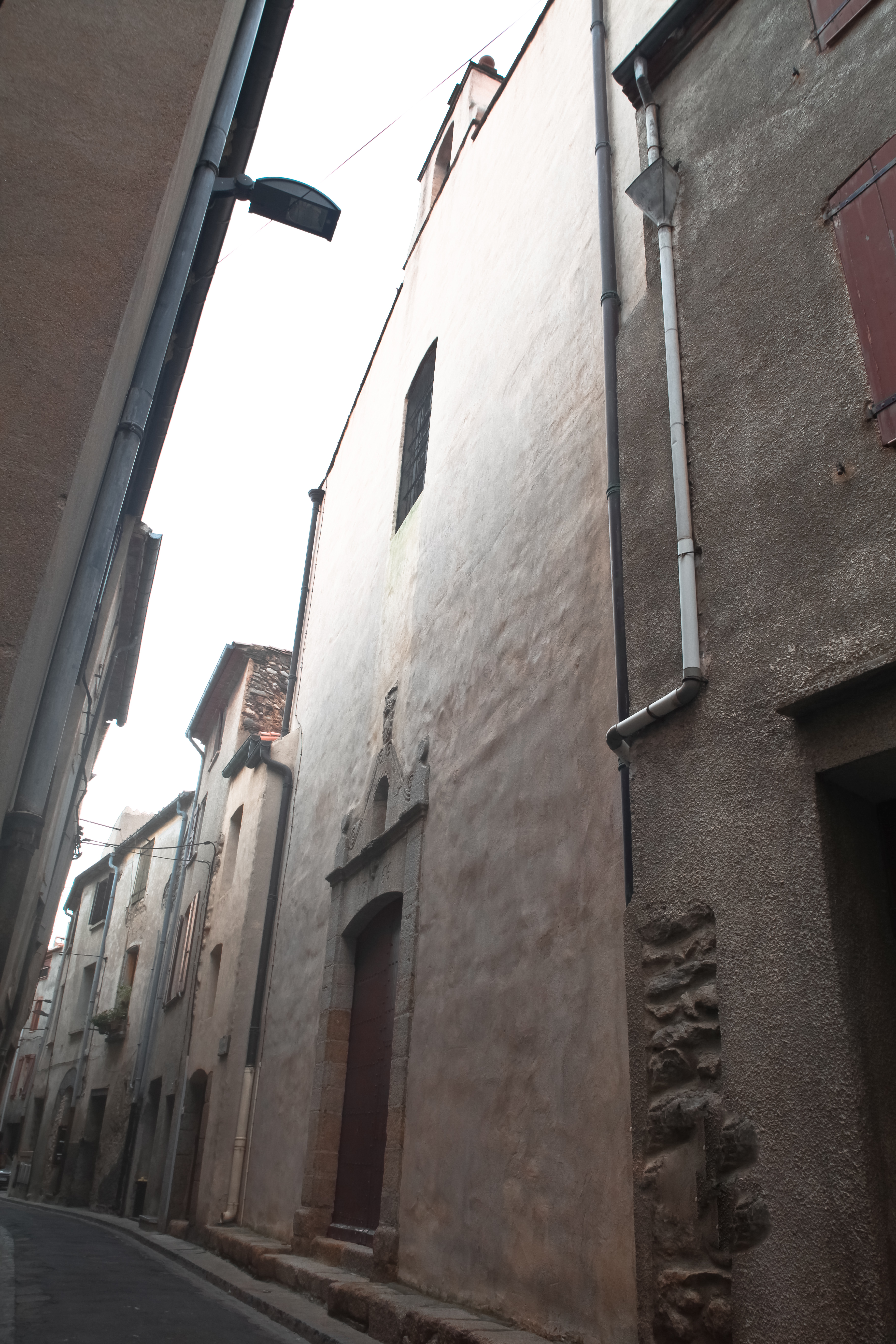 Carmes church, Ille-sur-Têt, France .